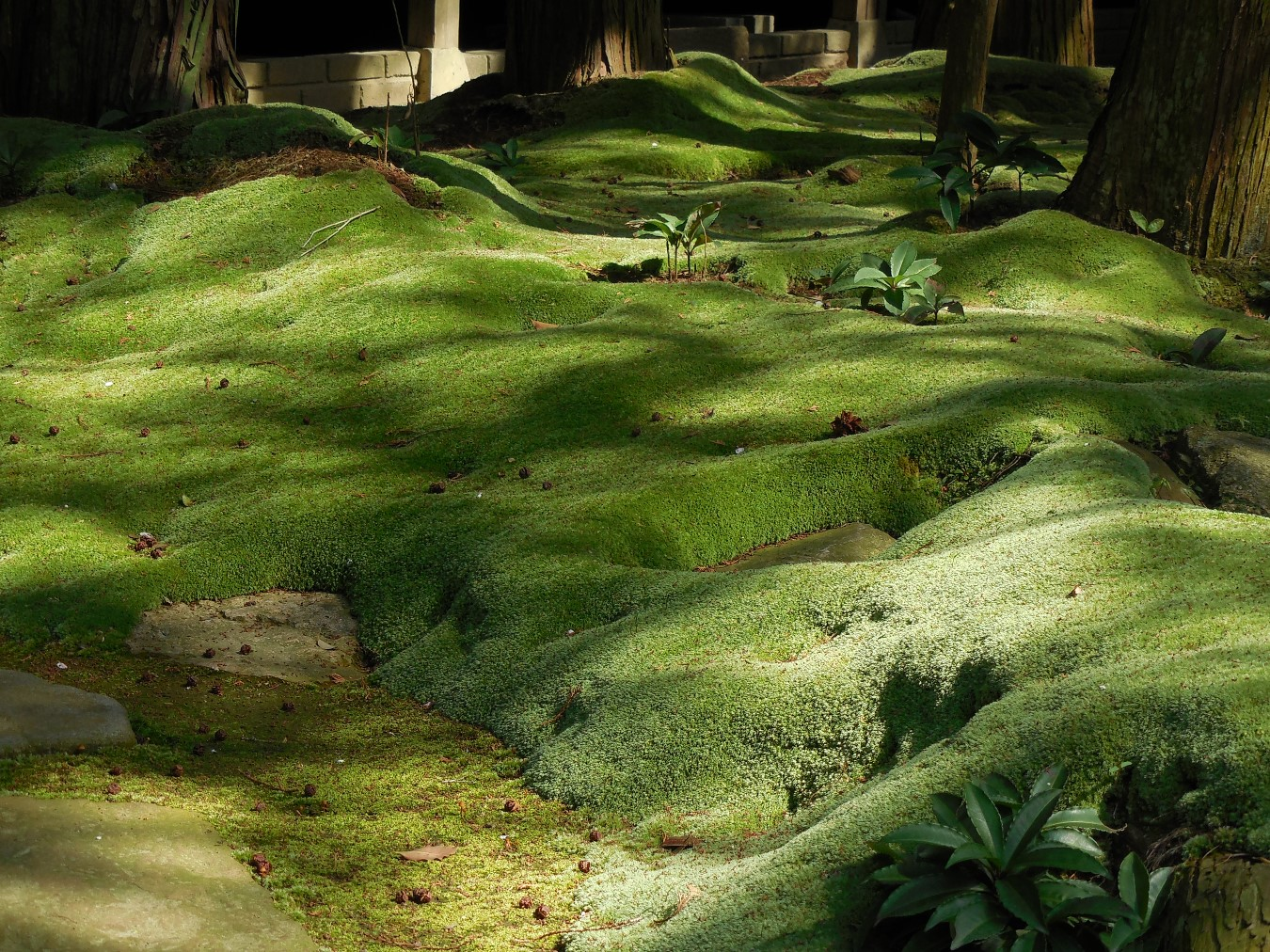 Moss garden at Kozanji (Chofu)